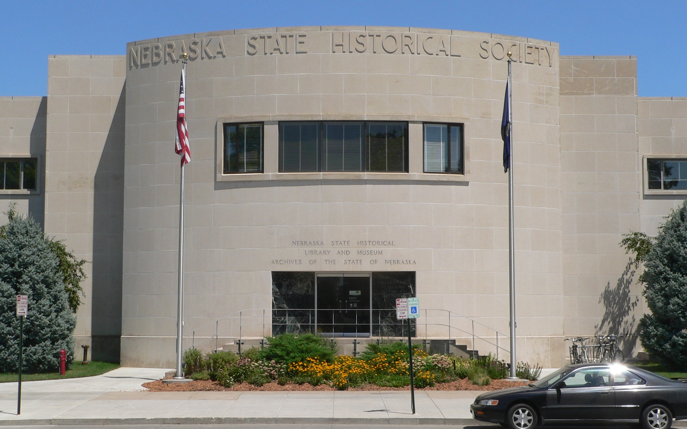 Central section of Nebraska State Historical Society building, located at 1500 R Street, on the campus of the University of Nebraska in Lincoln, Nebraska.